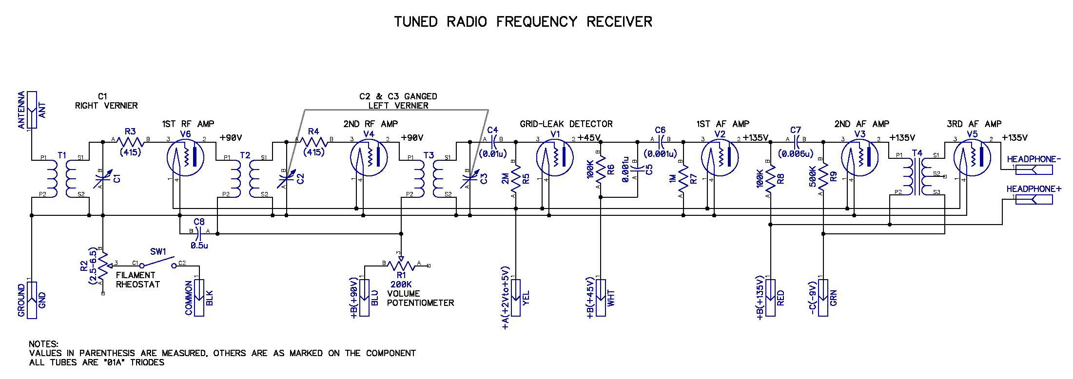 Schematic of a Typical TRF Radio Six Tube Design using Triode Tubes – Two Radio Frequency Amplifiers, One Grid-Leak Detector, Three Class ‘A’ Audio Amplifiers